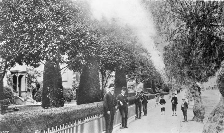 Photograph in front of the John H. Jones residence on Main Street looking north from Fifth Street, Los Angeles, ca.1888. Four men in suits and hats stand leaning against the fence that surrounds the John H. Jones residence, which later became the Rosslyn Hotel. Beyond the fence a small gazebo can be seen through a second barrier of topiary hedges and trees that are themselves obscured by tree foliage in the foreground. Three young boys also stand along the sidewalk in short pants and hats. Shop fronts along the street and several other pedestrians are visible in the distance, beyond the trees hanging in from the right. John H. Jones and Carrie Otis Jones